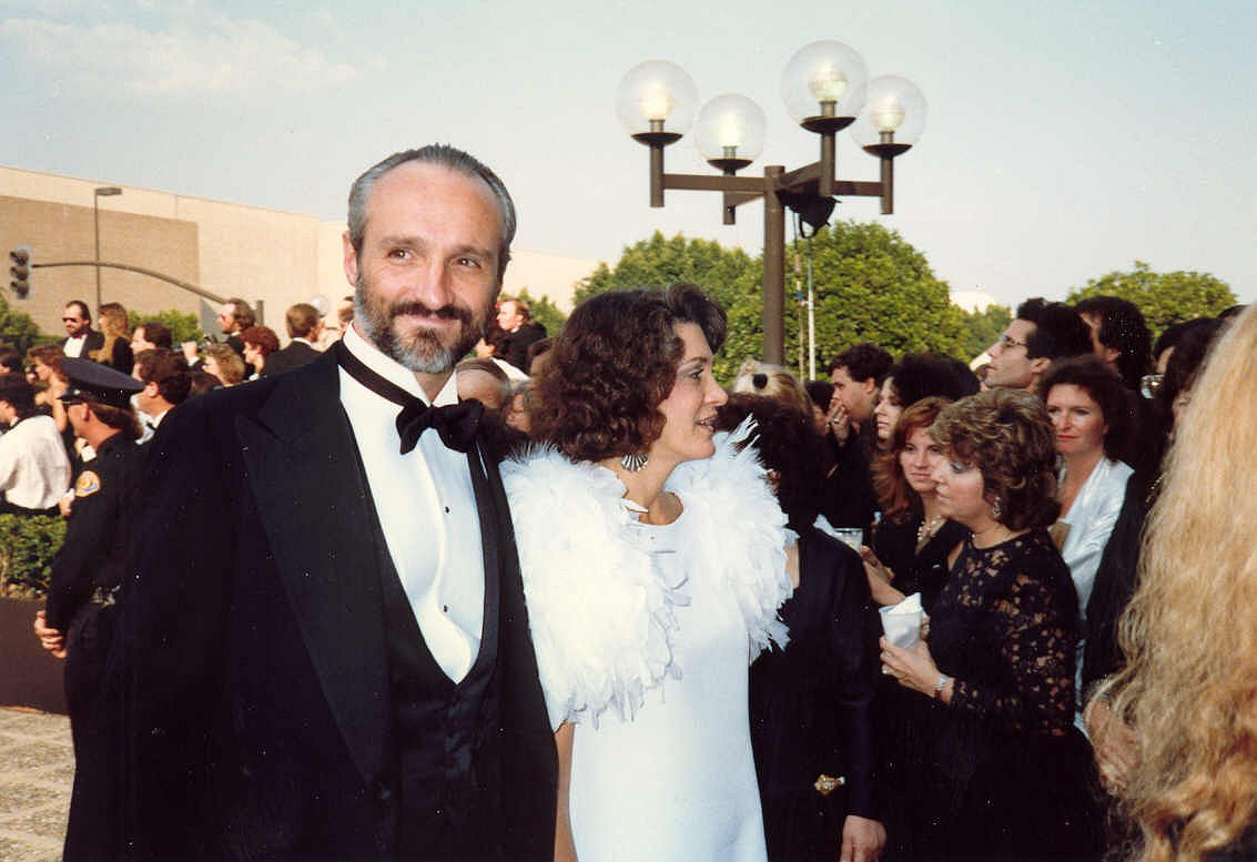 Michael Gross on the red carpet at the 39th Annual Emmy Awards 9/20/87 - Permission granted to copy, publish, broadcast or post but please credit "photo by Alan Light" if you can